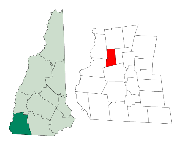 Map of a municipality in Cheshire County, New Hampshire